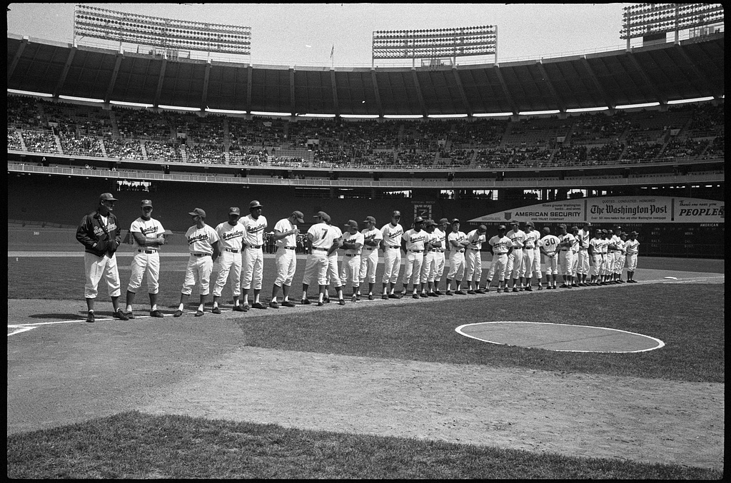 Title: [Washington Senators baseball team standing on the field on opening day, Robert F. Kennedy Stadium, Washington, D.C.] Creator(s): Trikosko, Marion S., photographer Date Created/Published: 1971 April 5. Medium: 1 negative : film. Reproduction Number: LC-DIG-ds-04926 (digital file from original negative) Rights Advisory: No known restrictions on publication. Call Number: LC-U9- 24222-17A [P&P] Repository: Library of Congress Prints and Photographs Division Washington, D.C. 20540 USA Notes: Title devised by Library staff. Contact sheet folder caption: "D.C. Stadium opening baseball game of 1971, MST, 4/5/71." U.S. News & World Report Magazine Photograph Collection. Contact sheet available for reference purposes: USN&WR COLL - Job no. 24222, frame 17A.